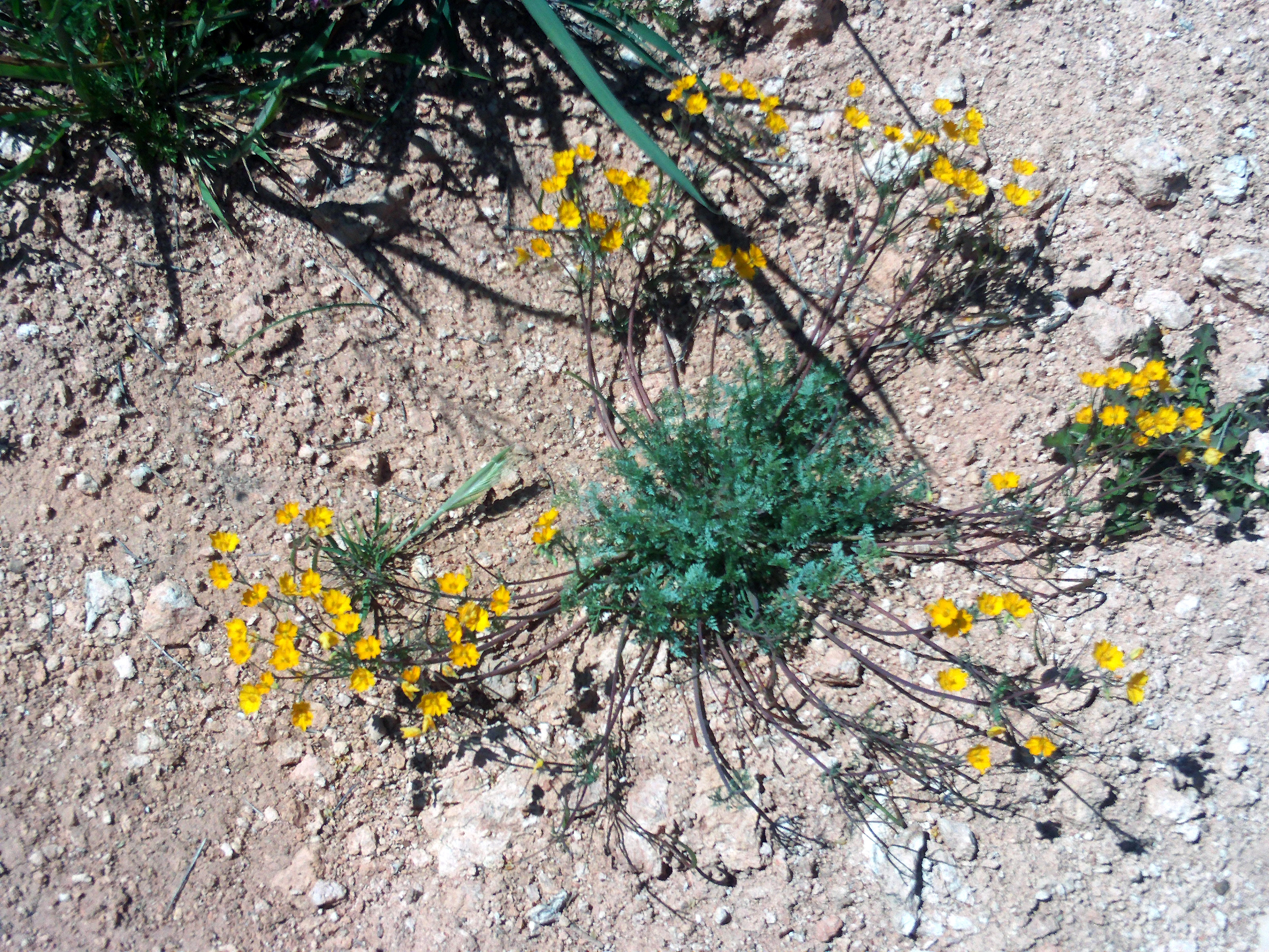 Hypecoum procumbens habitus, Campo de Calatrava, Spain